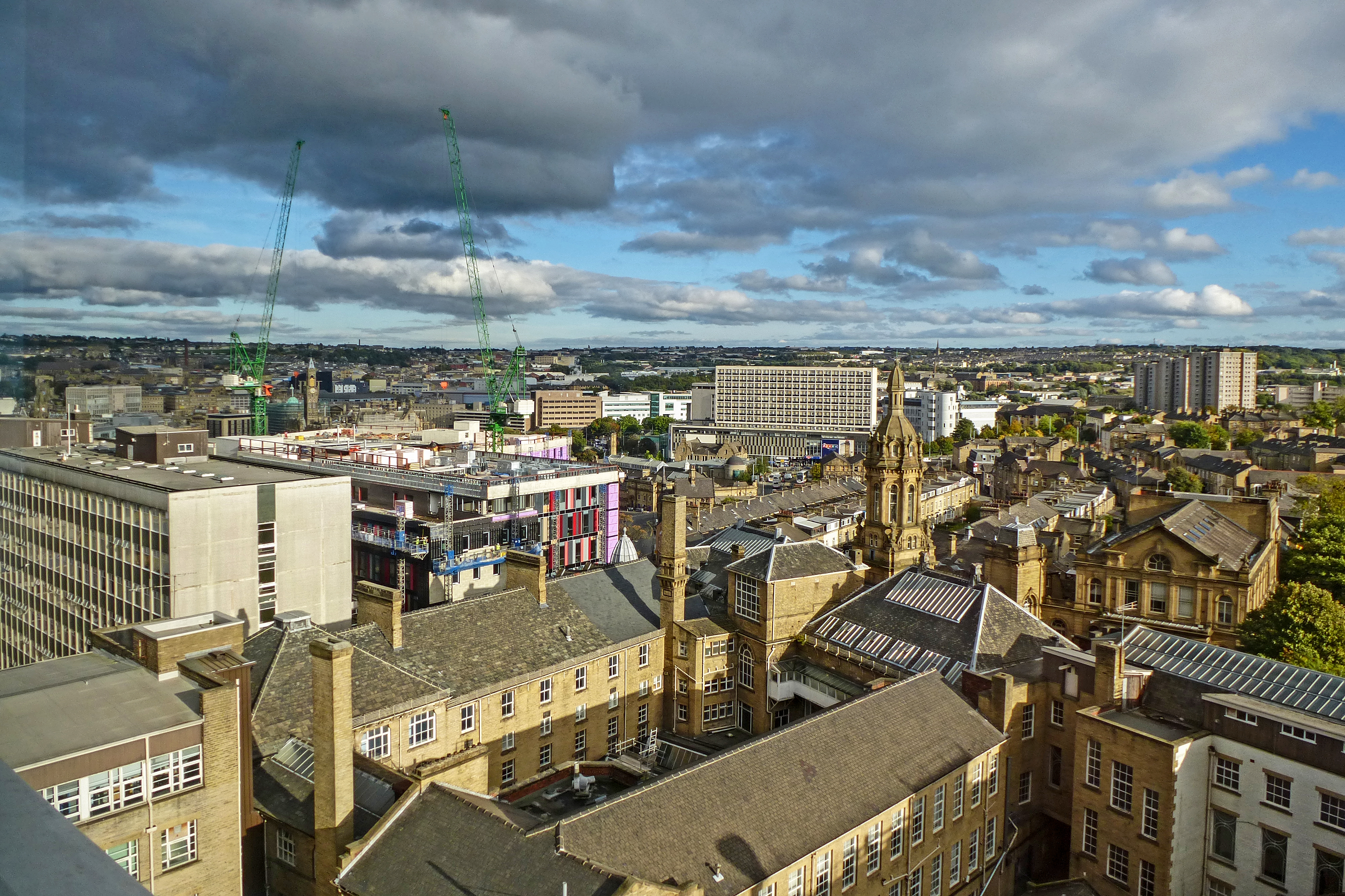 from the Richmond Building, Bradford University